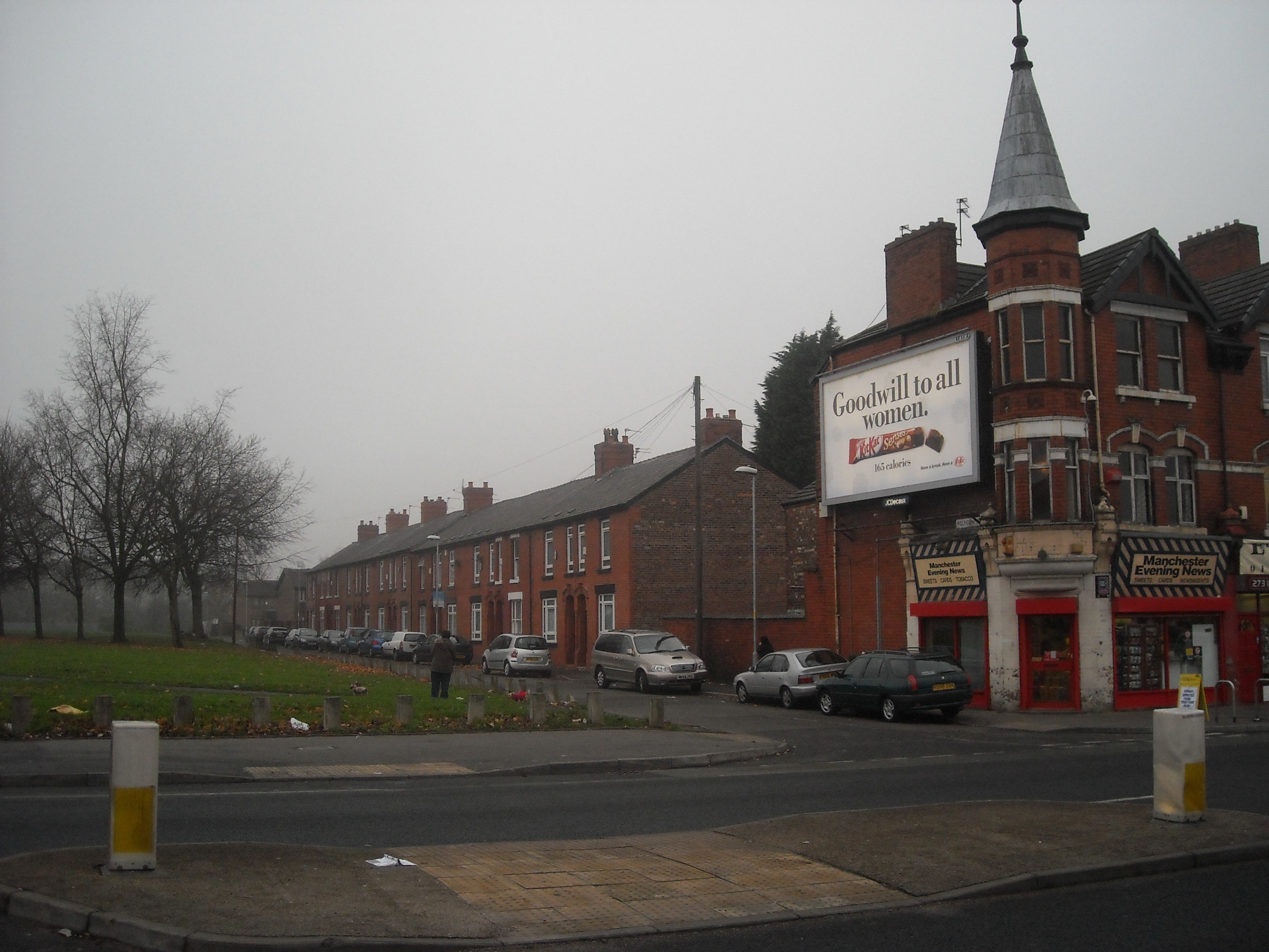 A typical billboard in Ardwick, near to the Apollo theatre.